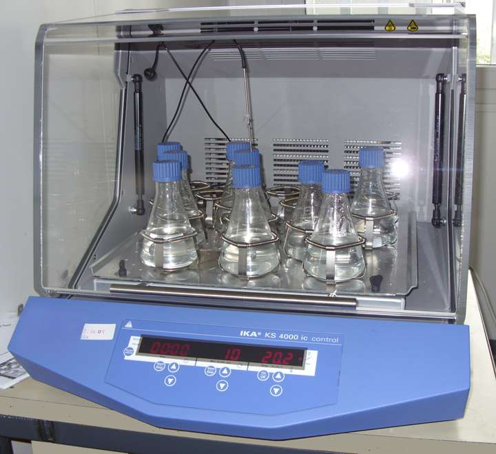 Incubator shaker